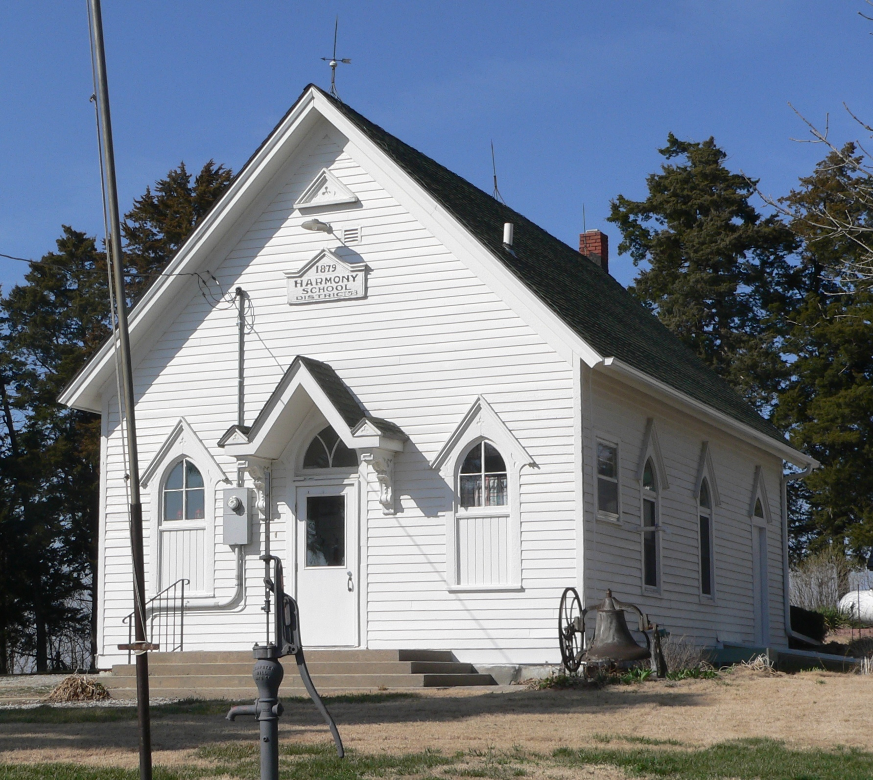 Harmony School, located at 6265 Q Road in rural Otoe County, Nebraska; seen from the southeast.